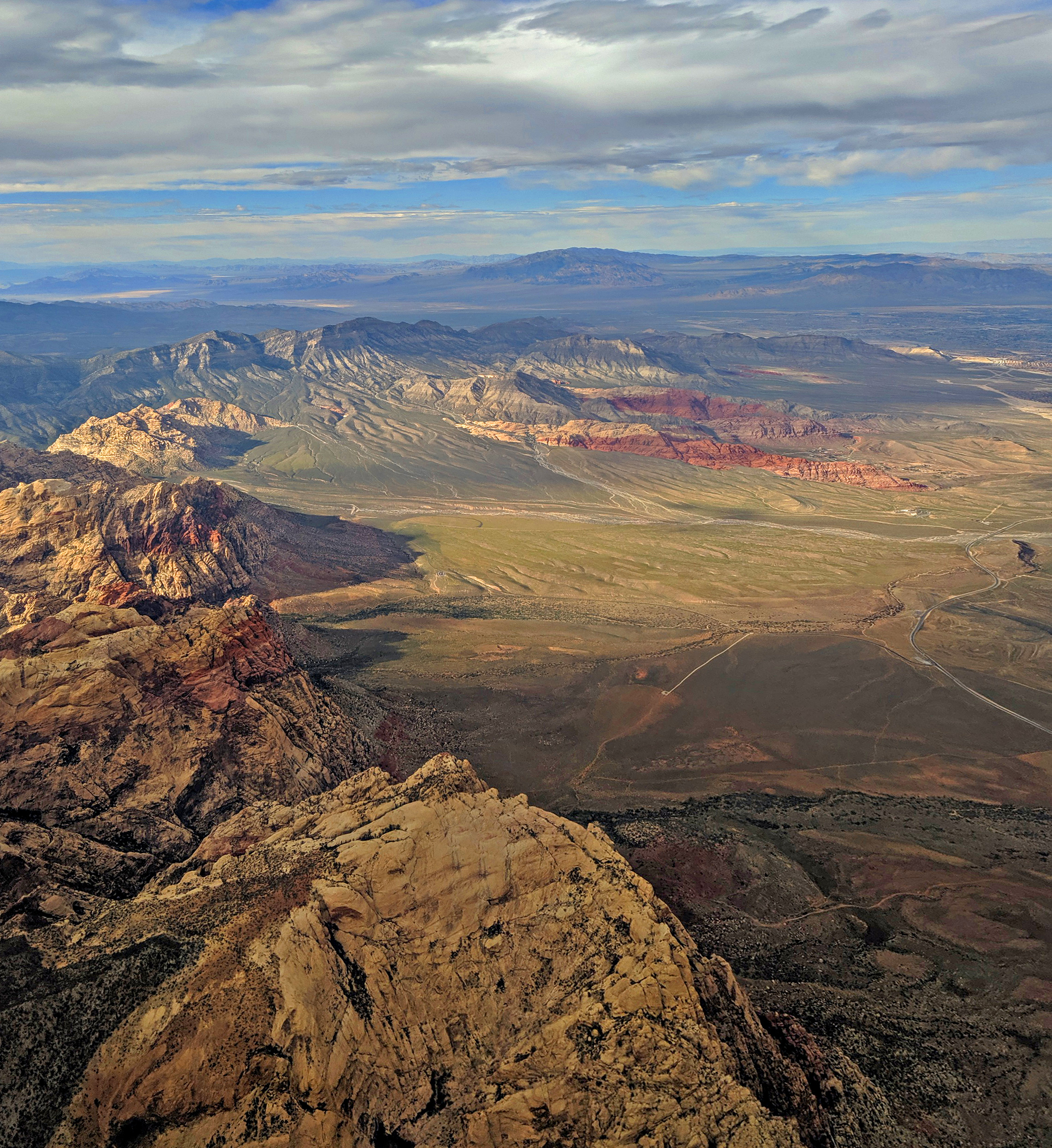 Aerial view of the Red Rock Canyon National Conservation Area near Las Vegas, Nevada, looking Northeast, with Nevada Route 159 at right.